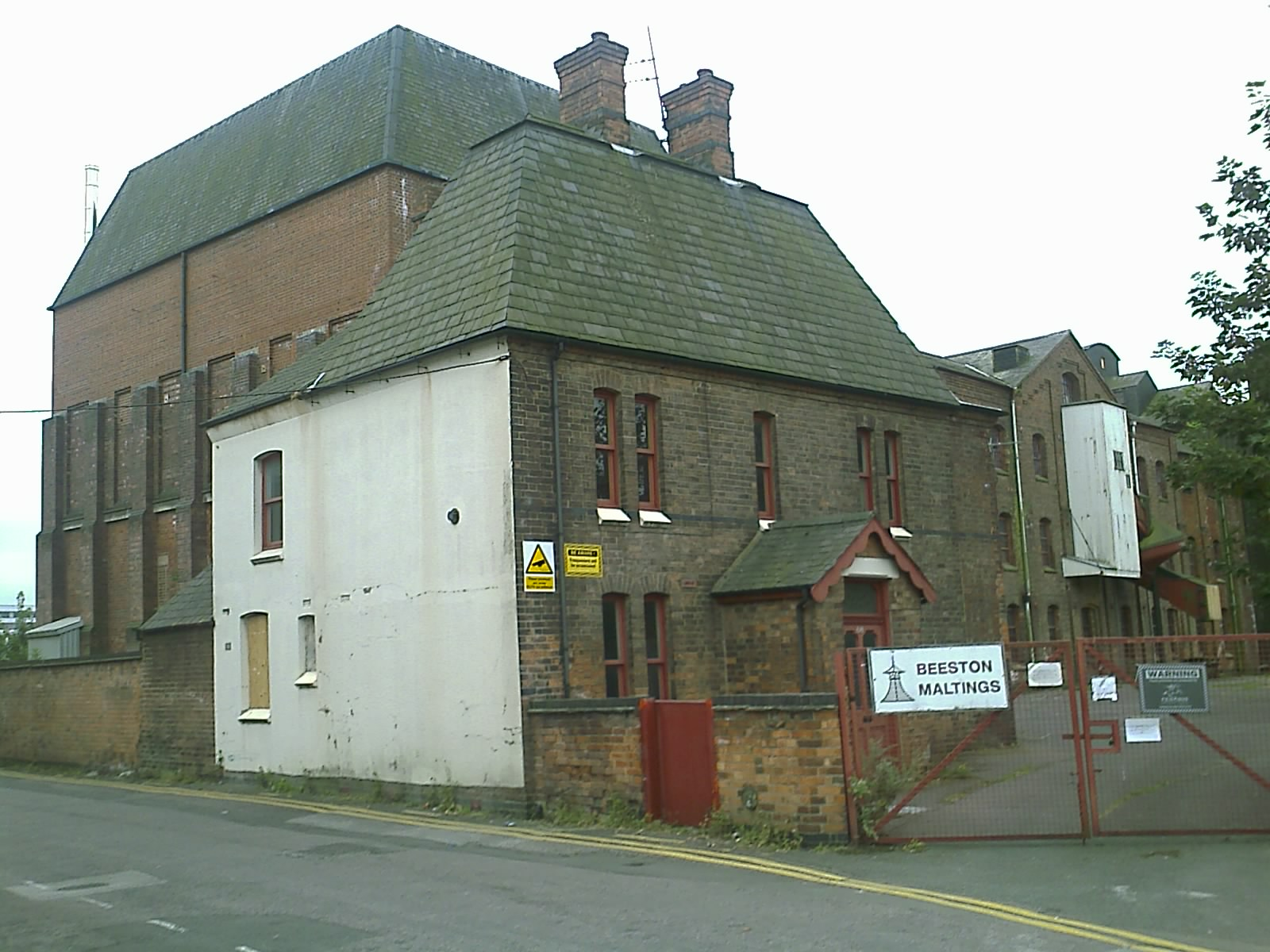 Beeston Maltings.